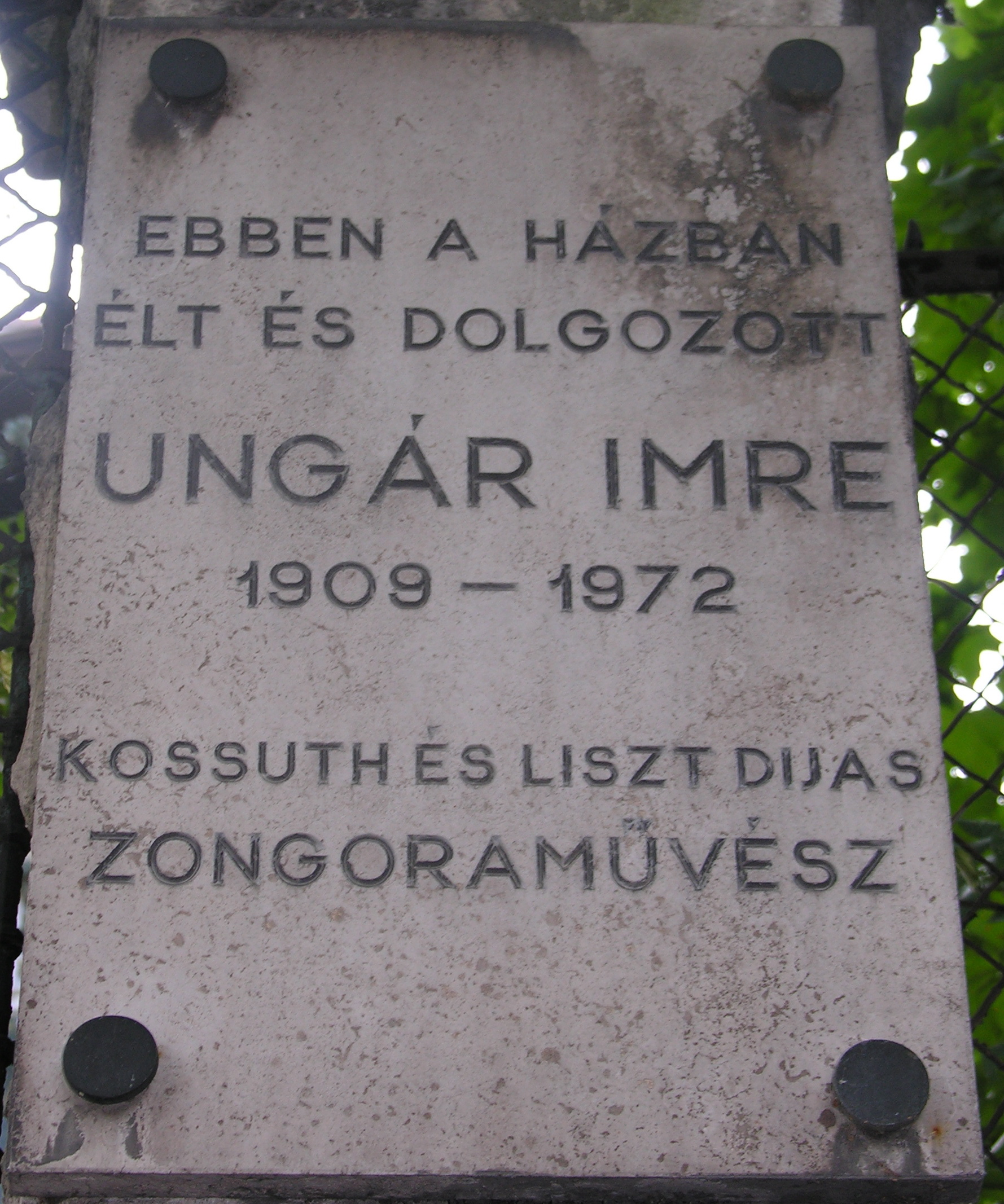 Commemorative plaque of Imre Ungár in Budapest District II, Szemlőhegyi Street No 8